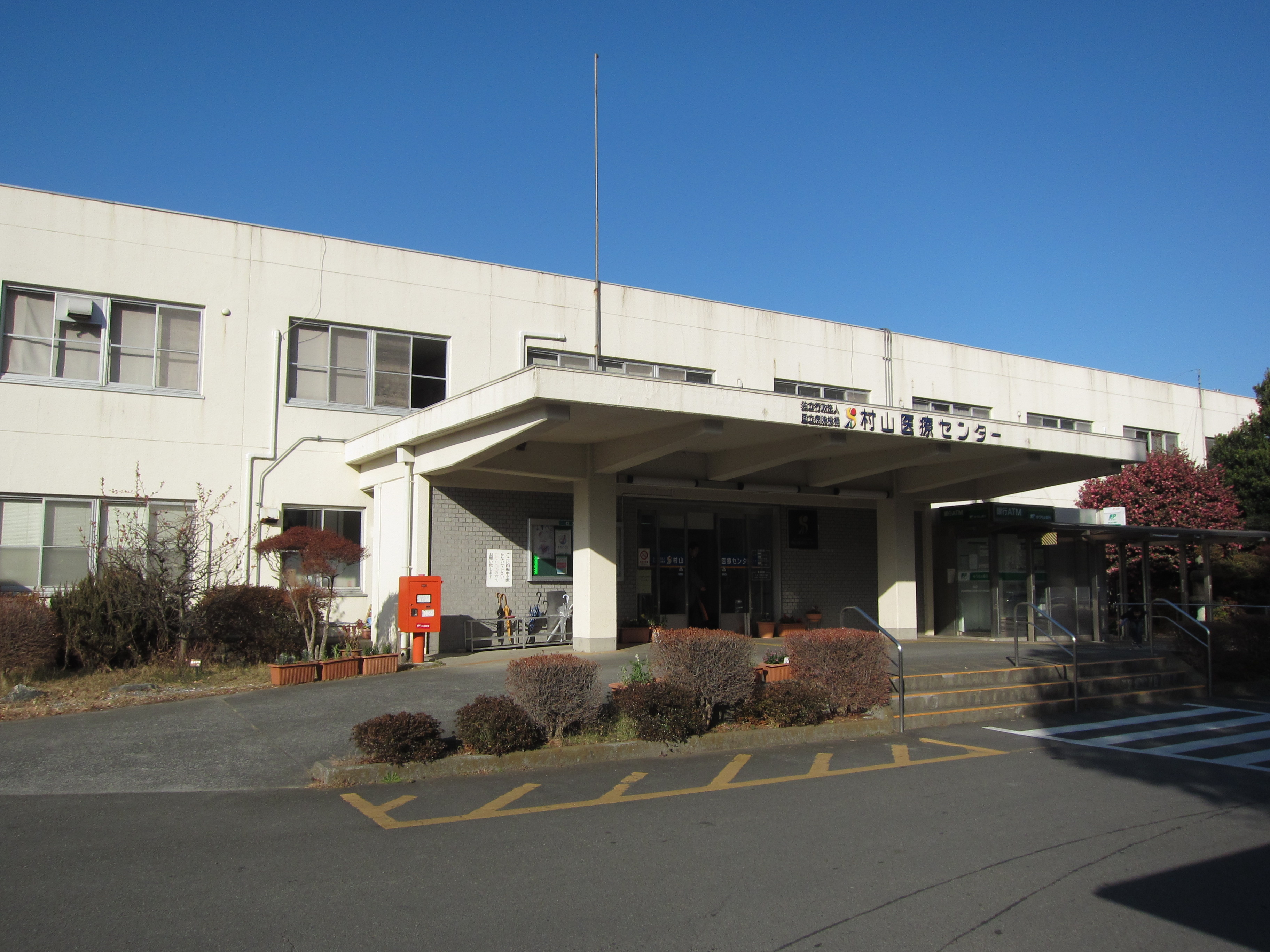 National Hospital Organization Murayama Medical Center